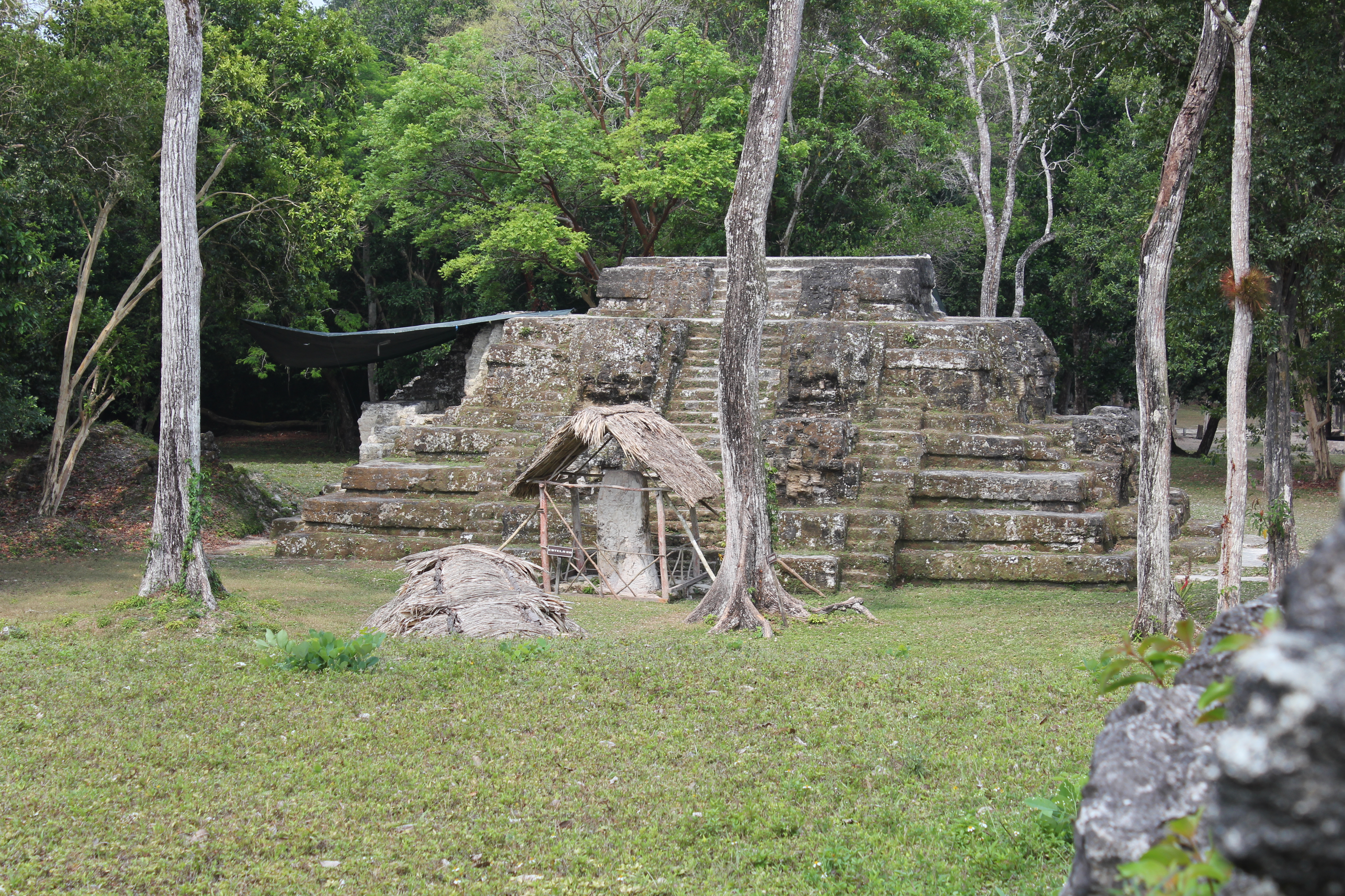 Uaxactun, Temple E-VII-Sub (Temple of Masks) (source